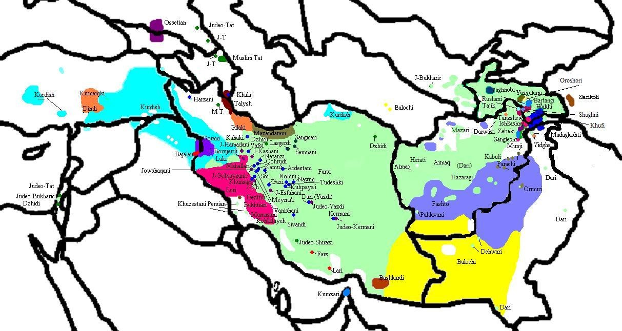 Based on: * Ethnologue (SIL) * Encyclopedia Iranica * Compendium Linguarum Iranicarum * 1985 map of languages of Afghanistan by Afghanistan's Central Statistics Office found here